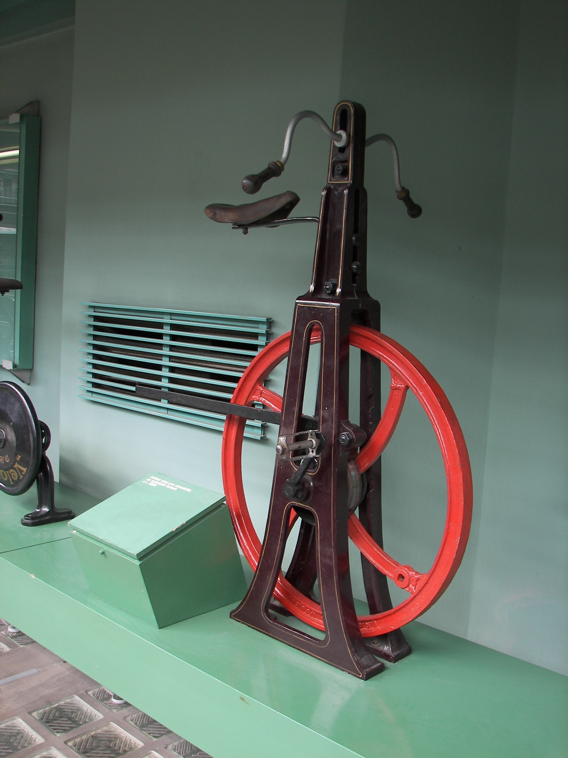 Bicycle trainer for Penny-farthing riders, 1884, photo from Národní techncké muzeum Praha